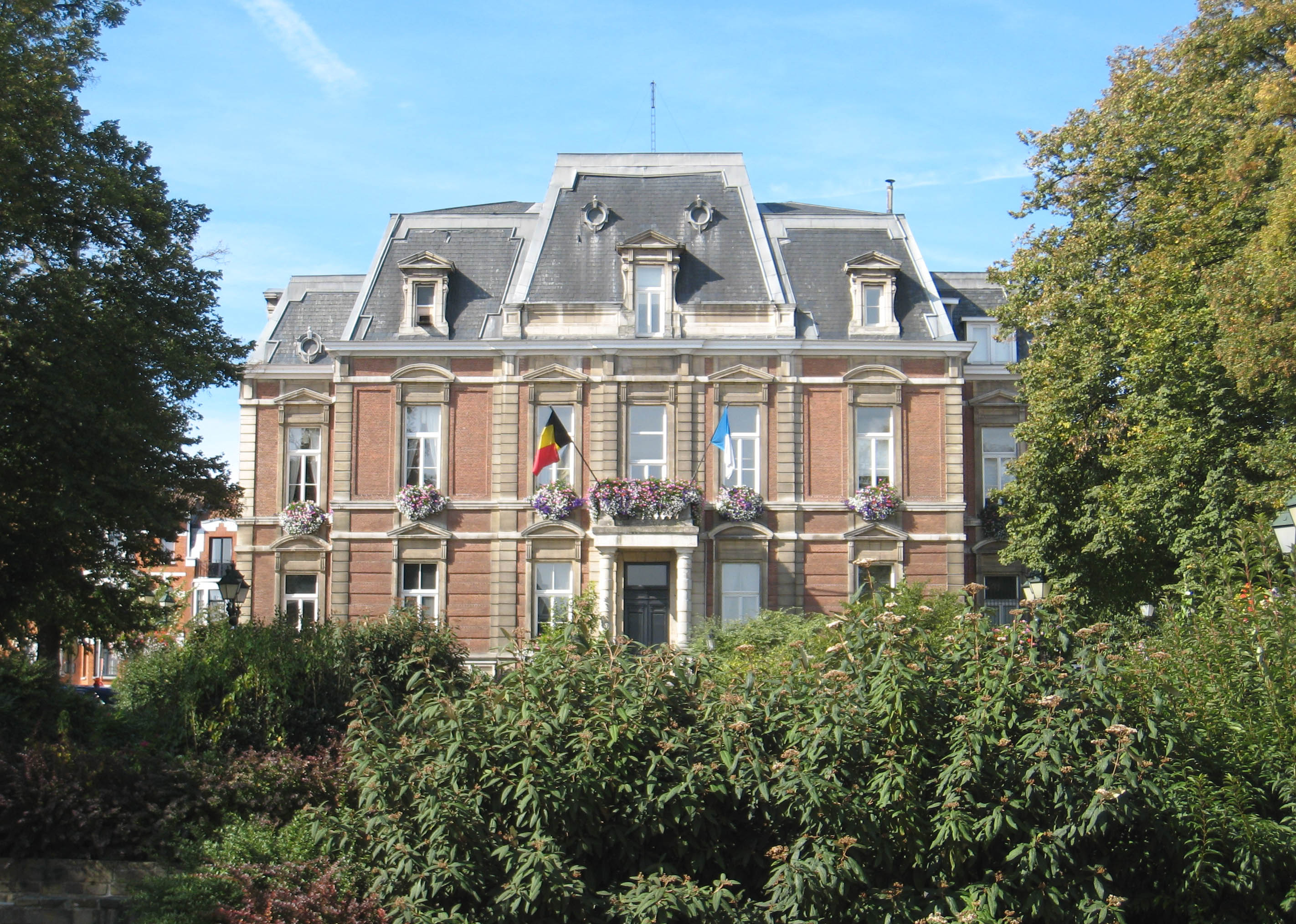 Uccle / Ukkel town hall